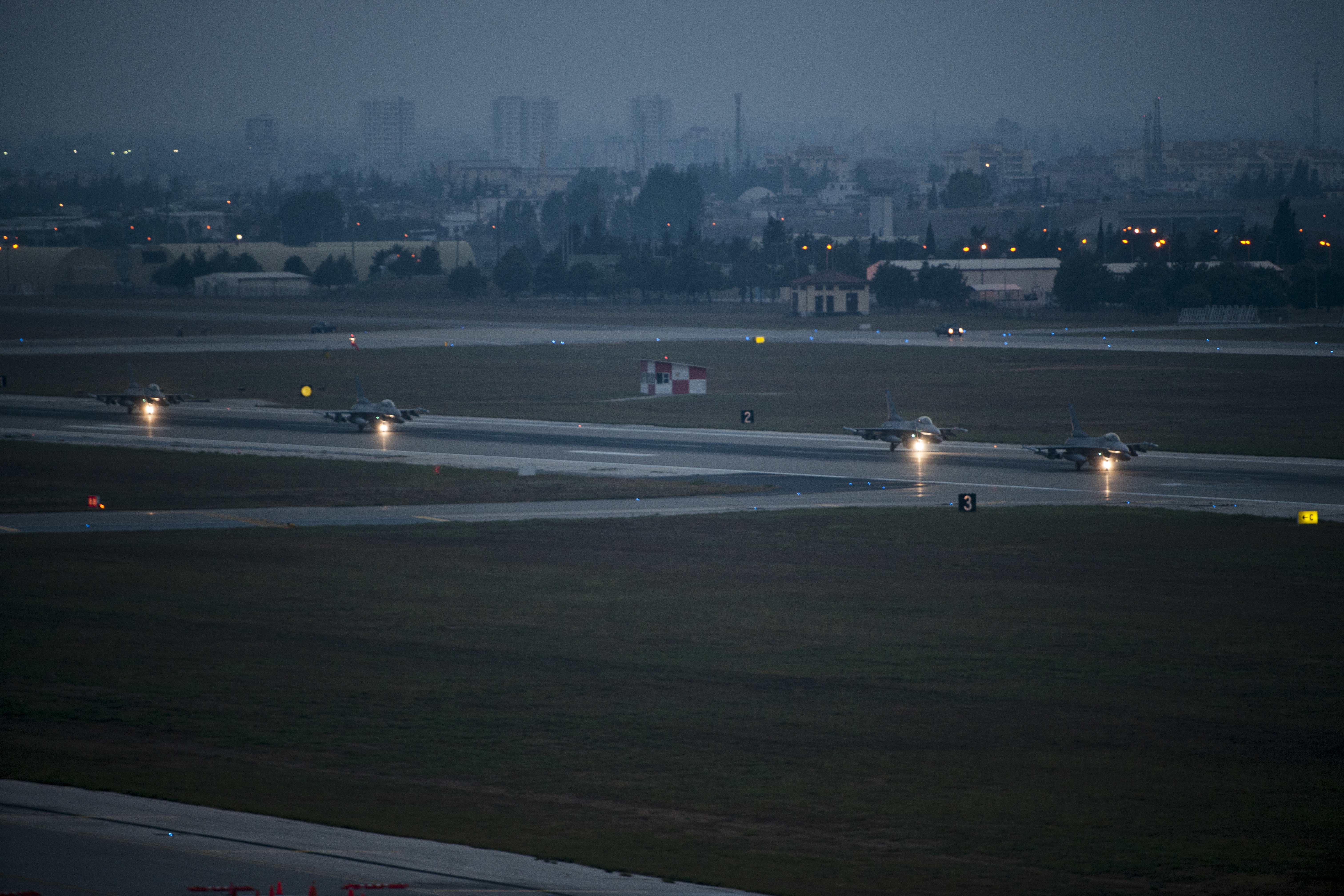 Four F-16 Fighting Falcons prepare to take off from Incirlik Air Base, Turkey, in support of Operation Inherent Resolve Aug. 12, 2015. This follows Turkey's decision to host the deployment of U.S. aircraft conducting counter-ISIL operations. The U.S. and Turkey, as members of the 60-plus nation coalition, are committed to the fight against ISIL in pursuit of peace and stability in the region. (U.S. Air Force photo by Senior Airman Krystal Ardrey /Released)